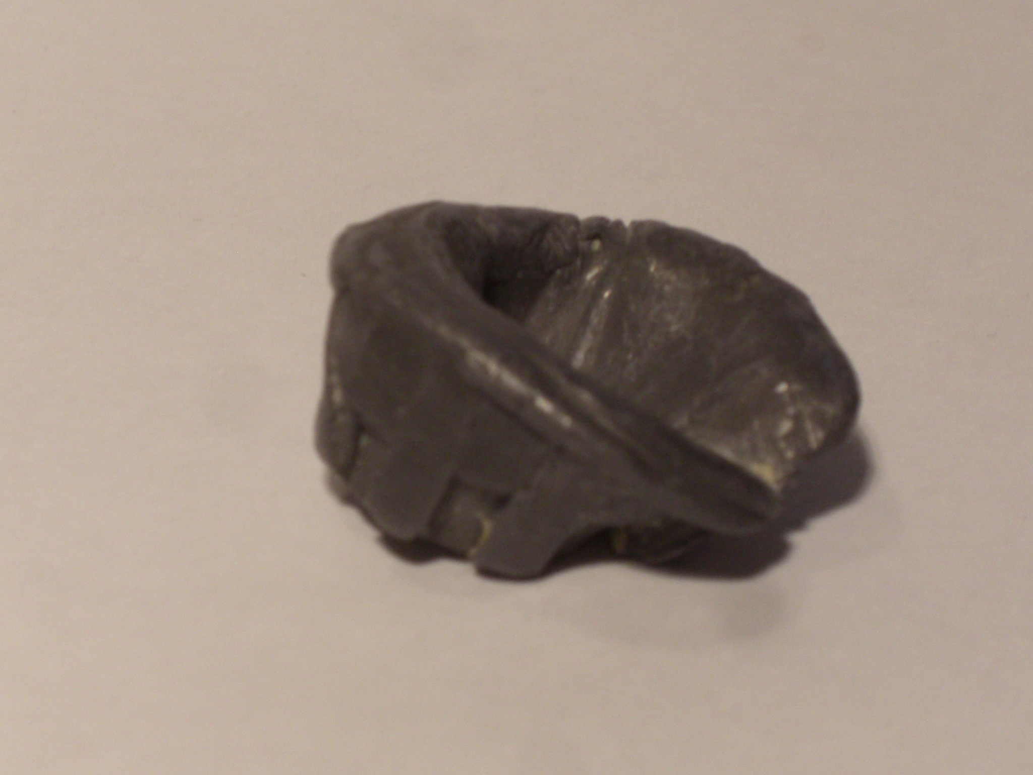 Mayera Slug Deformed (After Wild Bore Hitting)